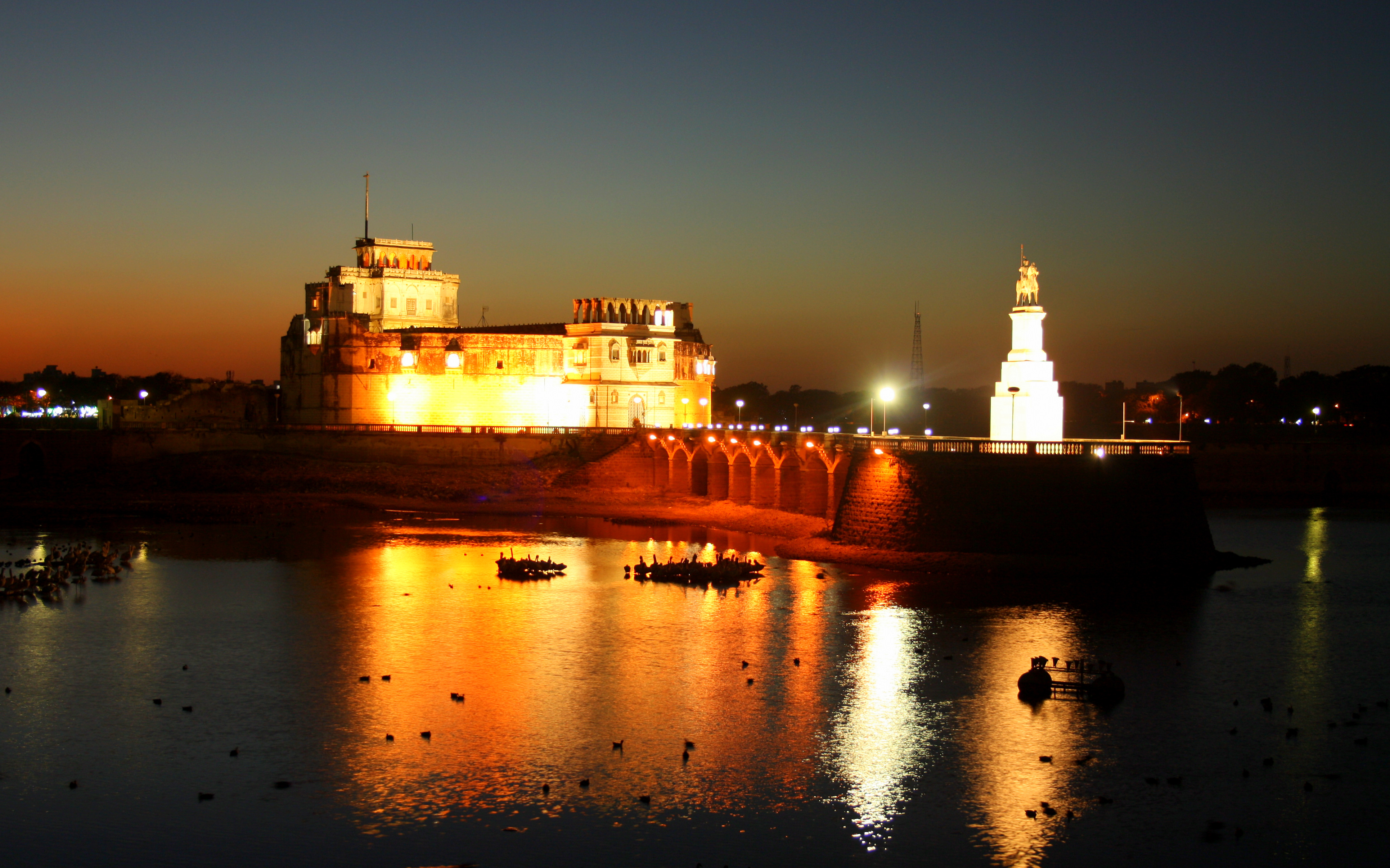 This majestic palace stands on an island in the center of ranmal lake, built for drought relief on orders from Jam Ranmalji after the failed monsoons in 1834, 1839 and 1846 made it difficult for the people of the city to find food and resources. Originally designed as a fort such that soldiers posted around it could fend off an invading enemy army with the lake acting as a moat, the tower known as Lakhota Palace now houses the Lakhota museum..